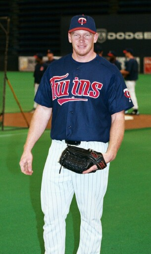 This photo was taken by user dlz28 and is released into the public domain. 17:22, 1 May 2006 . . Dlz28 . . 305×512 (58 KB)